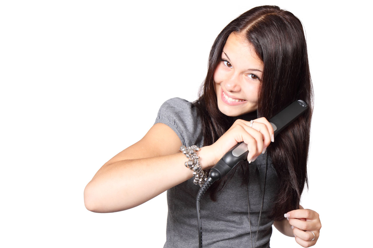 young woman using her hair straightener isolated on white background